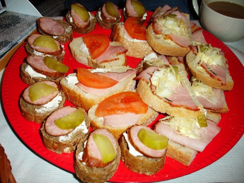 Folklore of Sanok